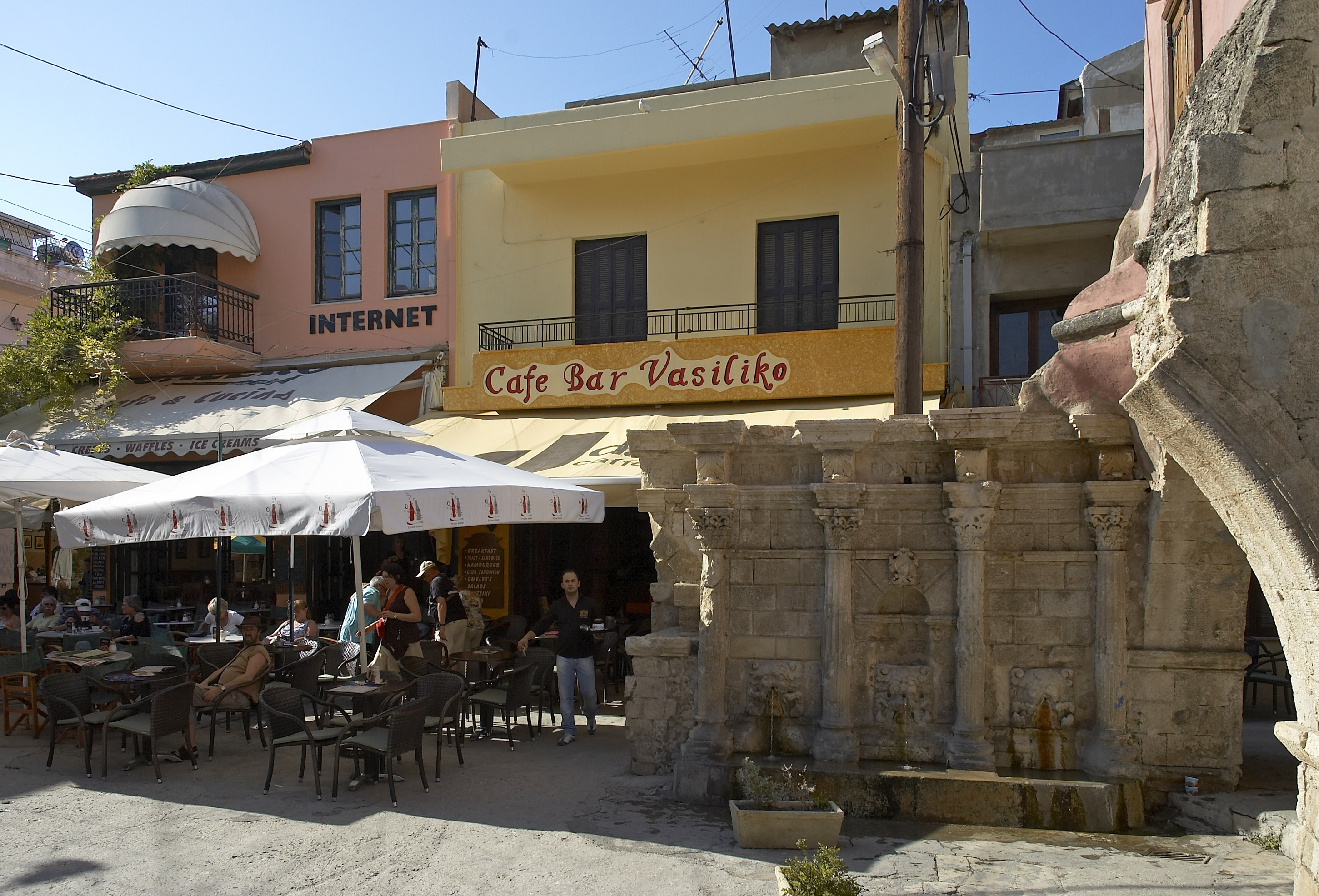 Rimondi fountain in Rethymno